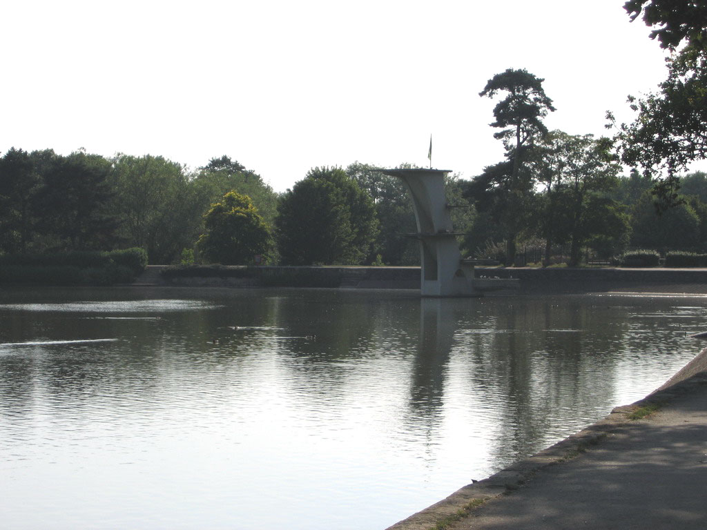 Coate Water, Swindon